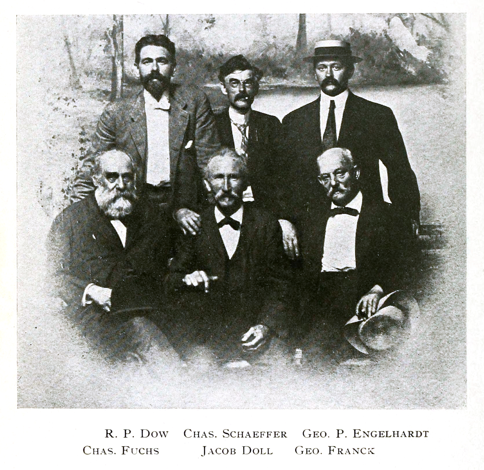 Members of the Brooklyn Entomological society, 1914. R.P. Dow, Charles Schaeffer, George P. Engelhardt, Charles Fuchs, Jacob Doll, George Franck